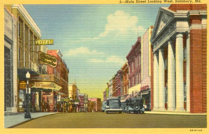 1940 post card of Main Street, Salisbury, Maryland